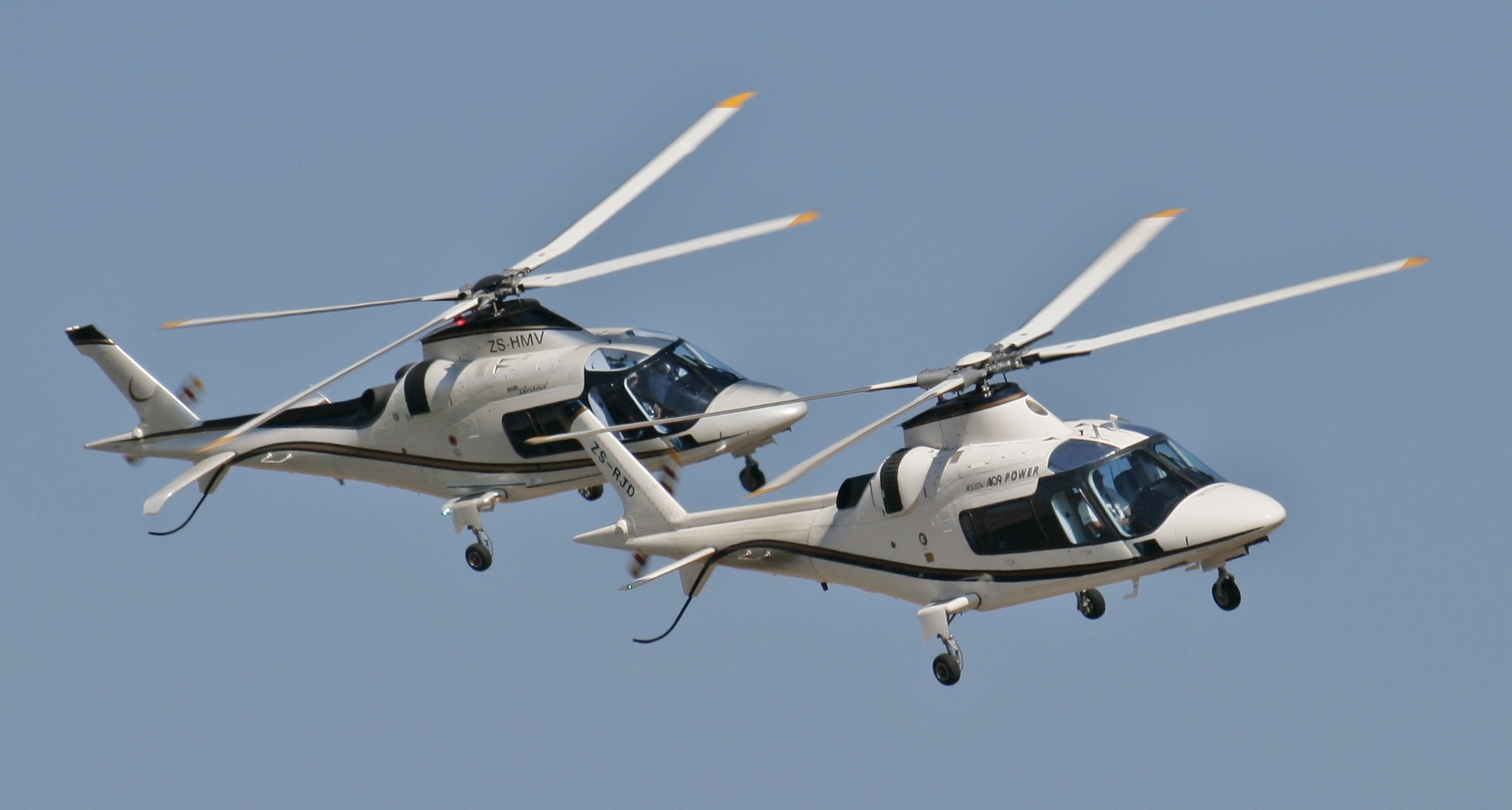 Two Agusta A109 during an air show at Rand Airport, South Africa